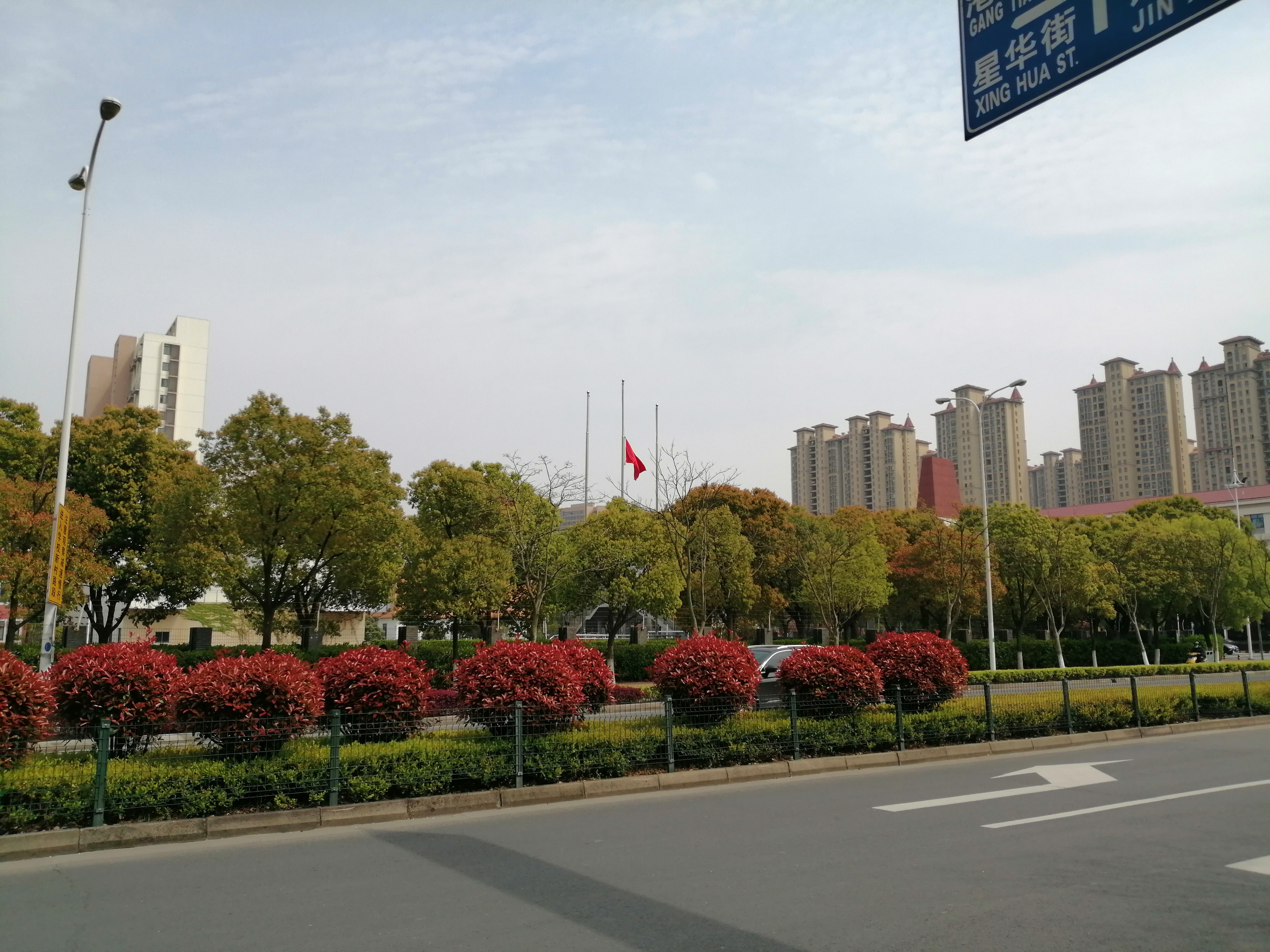 To mourn deceased medical staff and compatriots during COVID-19. I taken in Suzhou, China.